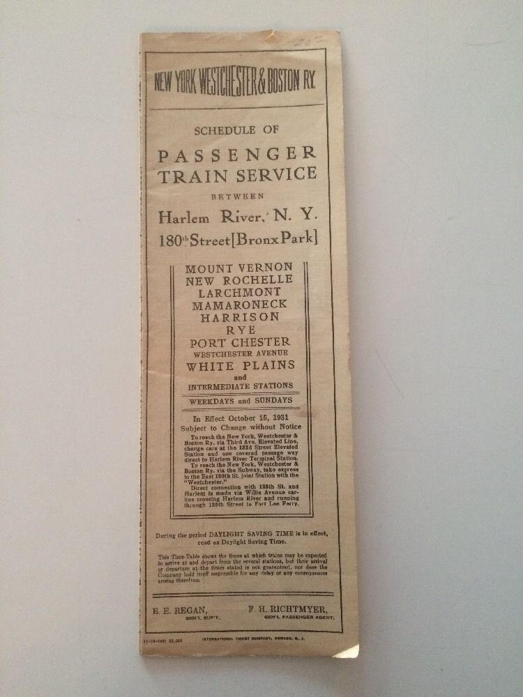 This a timetable from the now-gone New York Westchester Boston Railway in 1931.